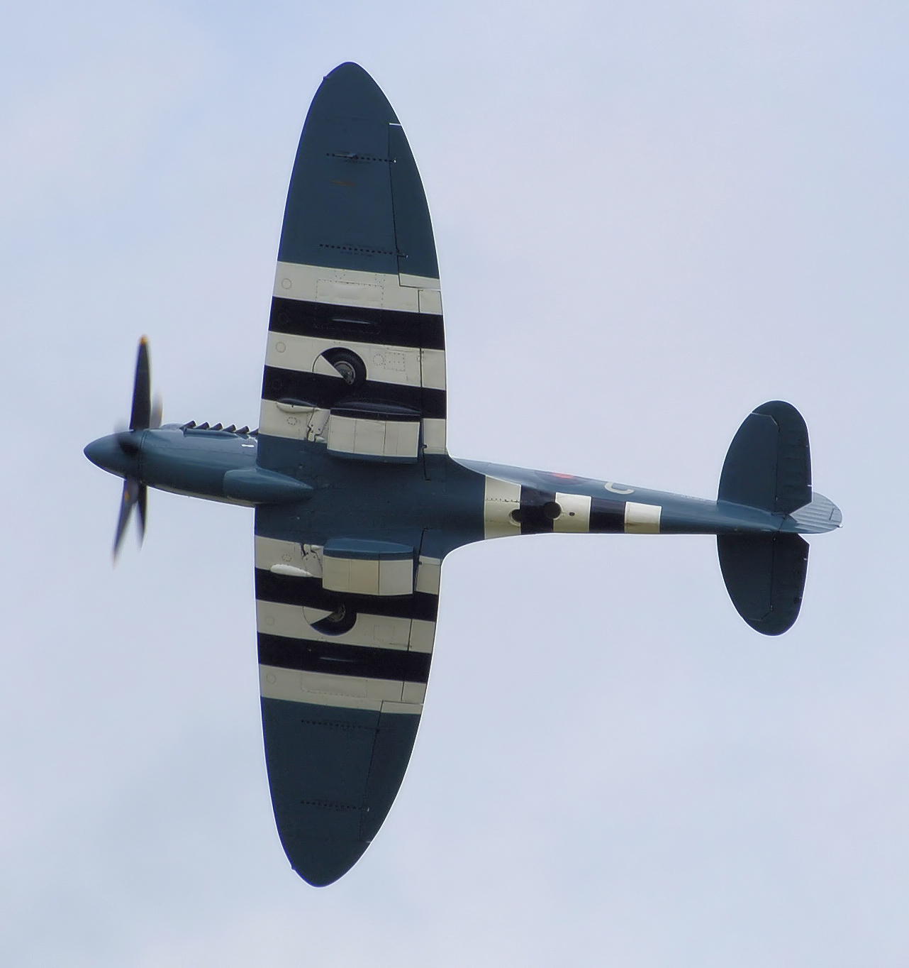 RAF Supermarine Spitfire Mk.PR.XIX (RAF code PS853, now civil registered as G-RRGN) at Kemble Air Day, Kemble Airport, Gloucestershire, England. Owned by Rolls-Royce. Built at Supermarine, Southampton, England, delivered to the RAF in 1945. Painted in the colours of RAF No.16 Squadron, 2nd T.A.F.